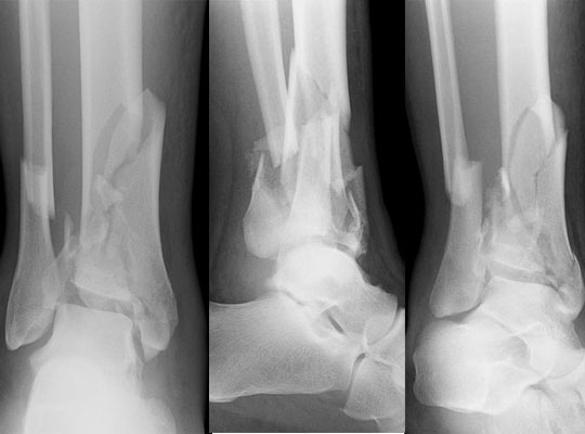 Pilon fracture xray